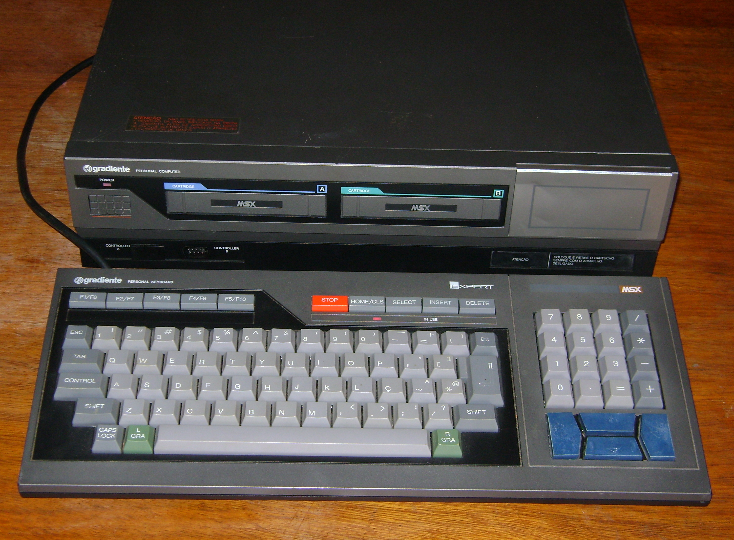 Brazilian Gradiente Expert MSX 1.1 from the 1980